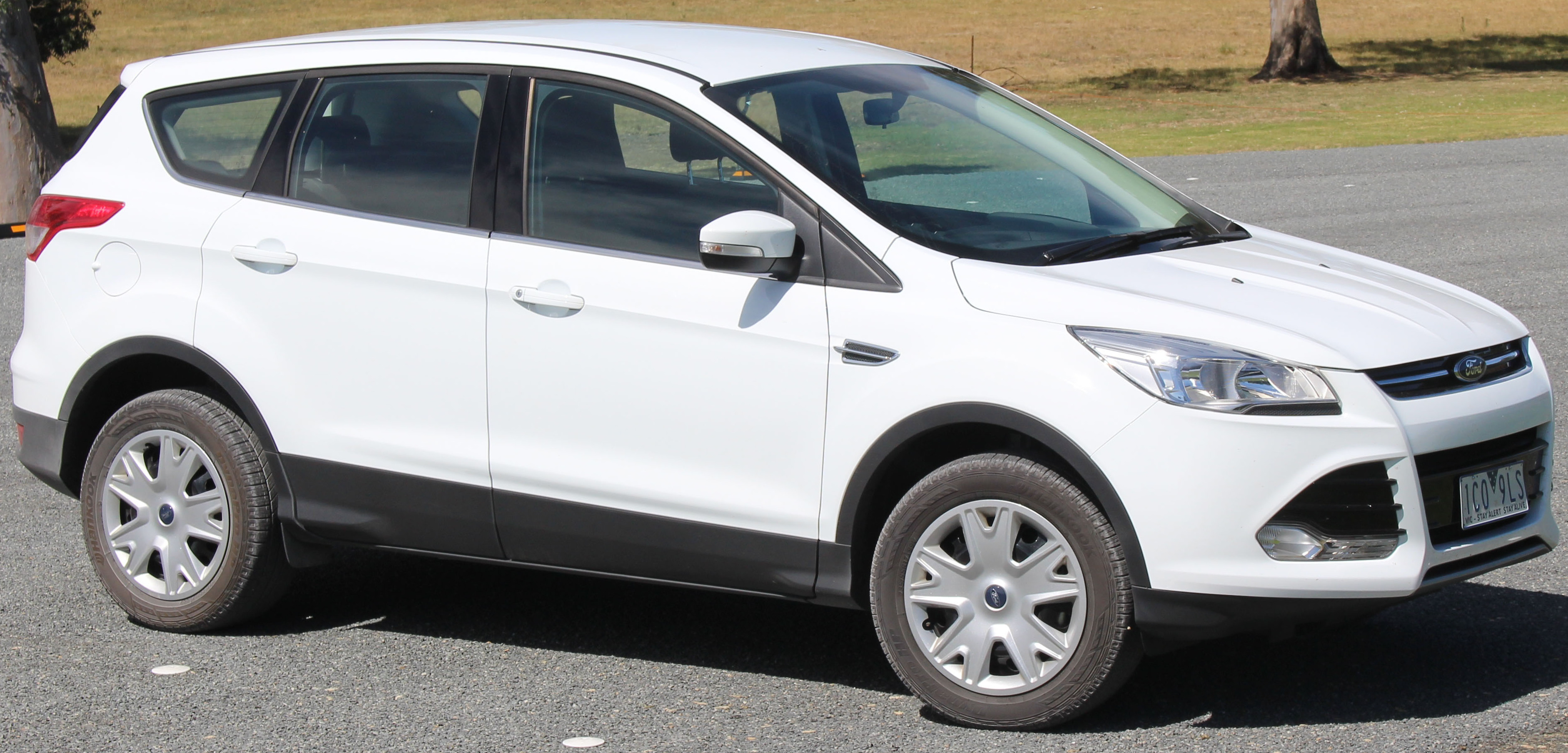 2014 Ford Kuga (TF II MY15) Ambiente EcoBoost 2WD wagon, photographed at McLaren Vale Winery, South Australia Vehicle registration enquiry results Jurisdiction Victoria Registration 1CO9LS Chassis code WF0AXXWPMAET09780 Engine code JTMAET09780 Compliance date 2014-06 Year of manufacture 2014